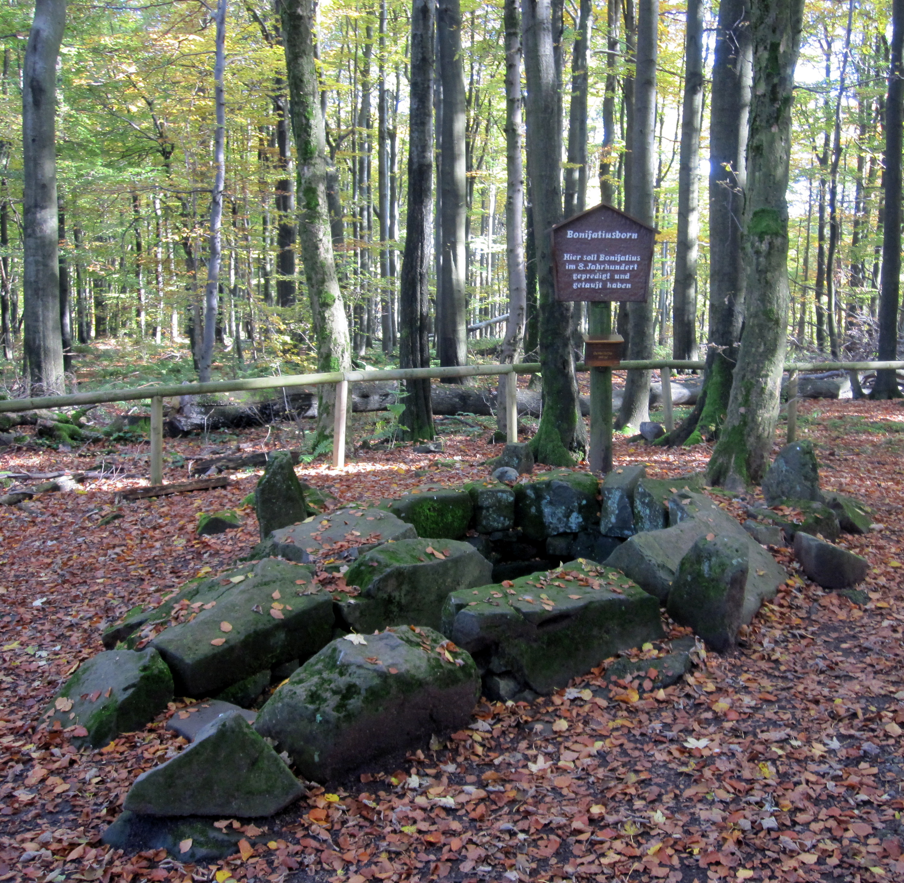 OpenStreetMap(Info)